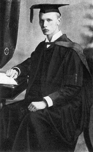 Jan Smuts (1870-1950), Victoria College, South Africa